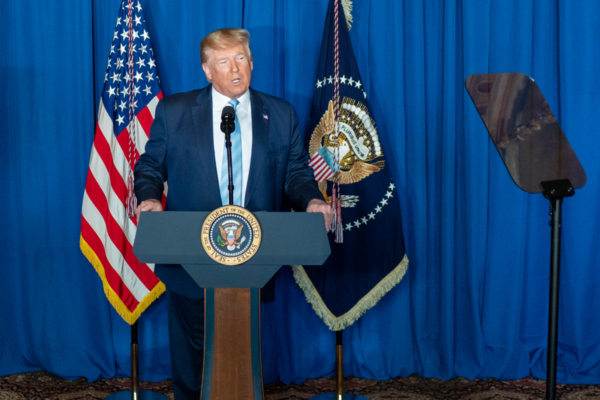 President Donald J. Trump delivers remarks during a press conference Friday, Jan. 3, 2020, at Mar-a-Lago in Palm Beach, Fla., following the U.S. airstrike in Iraq that resulted in the death of Iranian commander Qassim Soleimani. (Official White House Photo by Shealah Craighead)